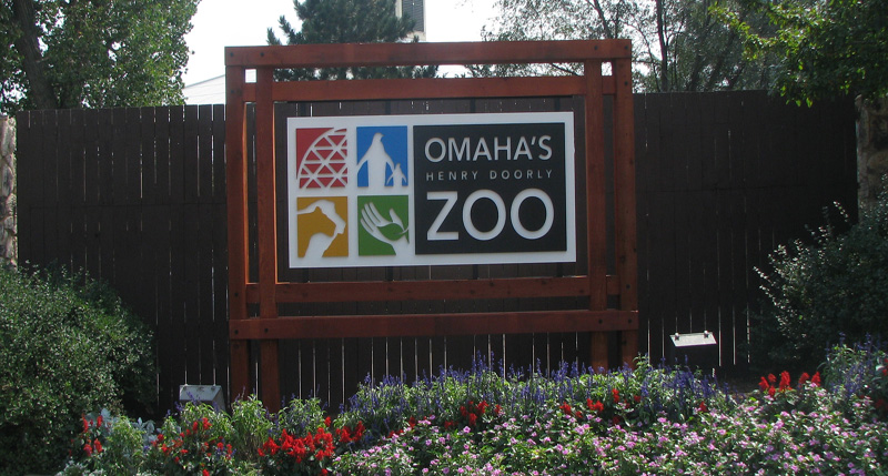 Omaha's Henry Doorly Zoo front sign. Henry Doorly Zoo in Omaha, Nebraska